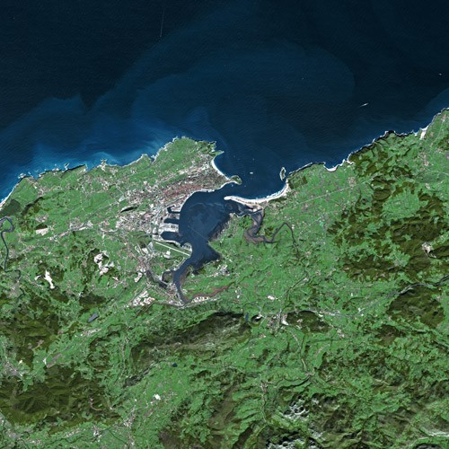 Laredo by SPOT Satellite